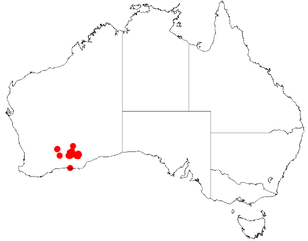 Scaevola oxyclona occurrence data downloaded from Australasian Virtual Herbarium on 12 May 2019